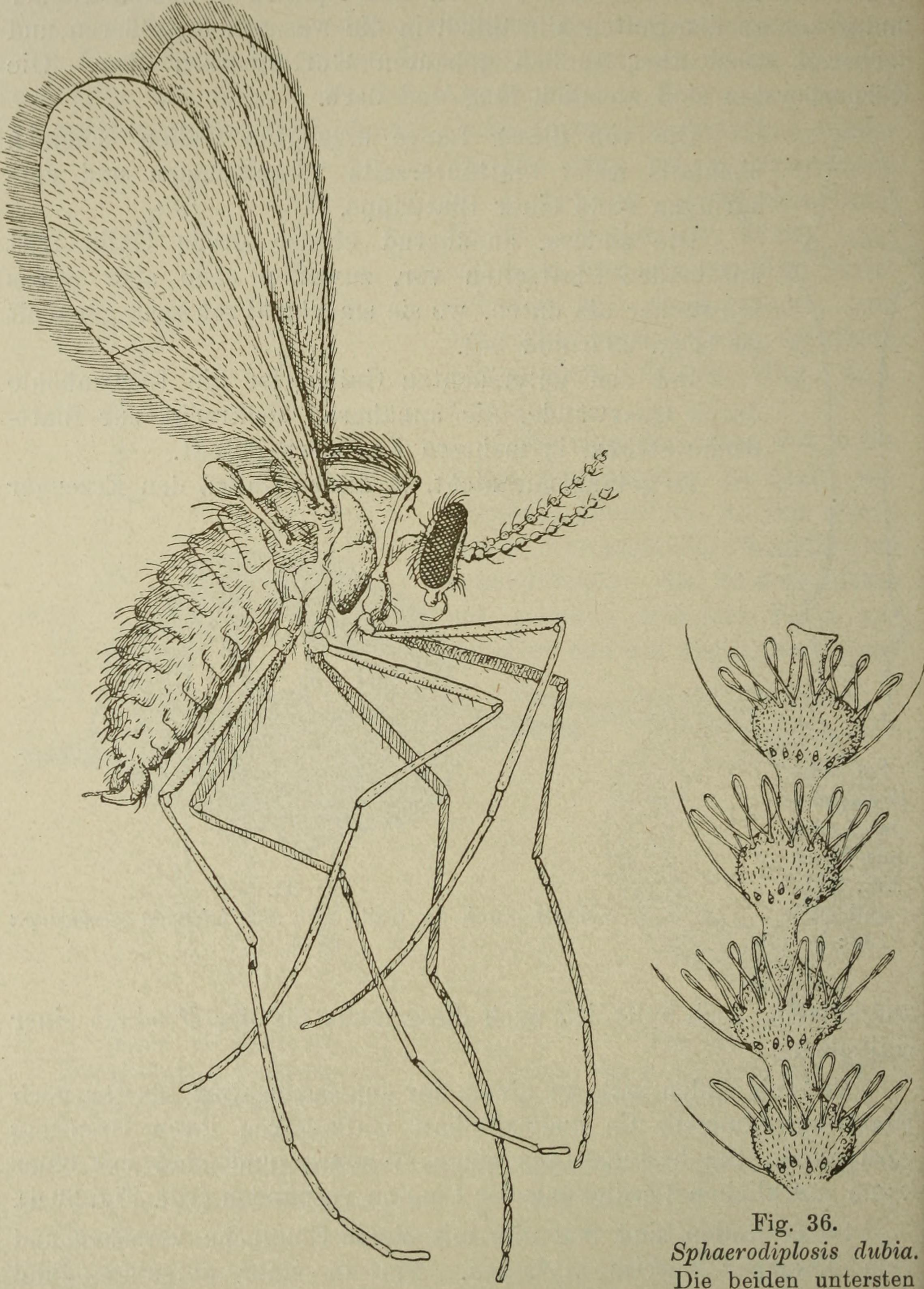 Title: Sitzungsberichte der Gesellschaft Naturforschender Freunde zu Berlin Year: 1839 (1830s) Authors: Gesellschaft Naturforschender Freunde zu Berlin Subjects: Natural history Natural history Publisher: (Berlin : R. Friedländer und Sohn) Text Appearing Before Image: Fig. 34. Schnitt durch die Galle 29 c auf Heisteria cyanocarpa13:1. aufzufinden, doch halte ich auch diese Galle für das Produkt einerGallmücke. - Endlich finden sich an einem der eingesammelten Blätter nochBlattrandrollungen, die unzweifelhaft Gallmücken ihren Ursprungverdanken. Sie bestehen aus einer Windung und sind mit einerkaum merklichen Verdickung der Lamina verbunden (vgl. Fig. 29 d). Diese Eollen sind fast alle mit einem Flugloche versehen undvom Erzeuger bereits verlassen. Nur in einer derselben fandich eine Pteromalide und Larvenreste, die aber nur erkennen lassen,daß sie einer ziemlich großen Gallmückenlarve mit stark cha-grinierter Körperhaut angehören. 460 EW. H. RÜBSAAM^N. Text Appearing After Image: Fig. 35. Geißelglieder des Sphaerodiplosis dubia 17 :1. Männchens 157 : 1. Beitrag zur Kenntnis außereuropäischer Gallmücken. 461 Sphaerodiplosis n. g. Taster 4gliedrig, Fühler 2 +12 gliedrig (?), die Knotenannähernd gleich, kugelig. Das 1. und 2. Geißelglied verwachsen.Jeder Knoten mit einem Haar- und einem Bogenwirtel (vgl. Fig. 36).Fußkrallen einfach, das Empodium deutlich kürzer als die Kralle. Die obere Lamelle der Haltezange tief geteilt, die mittlereLamelle nach hinten stark erweitert und ausgerandet, daherannähernd herzförmig (Fig. 37). Zangenbasalglied ohne Fortsatz.Das Klauenglied ähnlich wie bei Contarinia, mit welcher GattungSphaerodiplosis, soweit sich dies ohne Kenntnis des Weibchenssagen läßt, verwandt sein möchte.